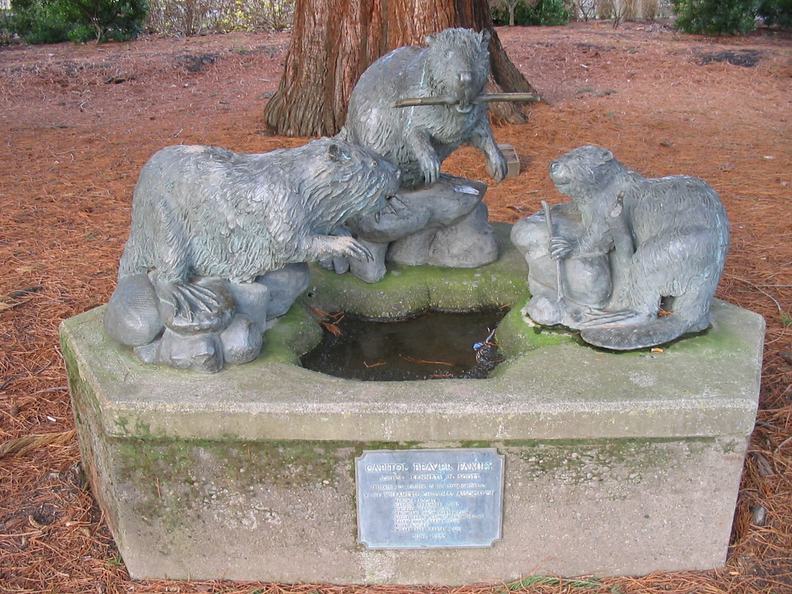 Capital Beaver Family sculpture in Wilson Park on the grounds of the Oregon State Capitol in Salem, Oregon